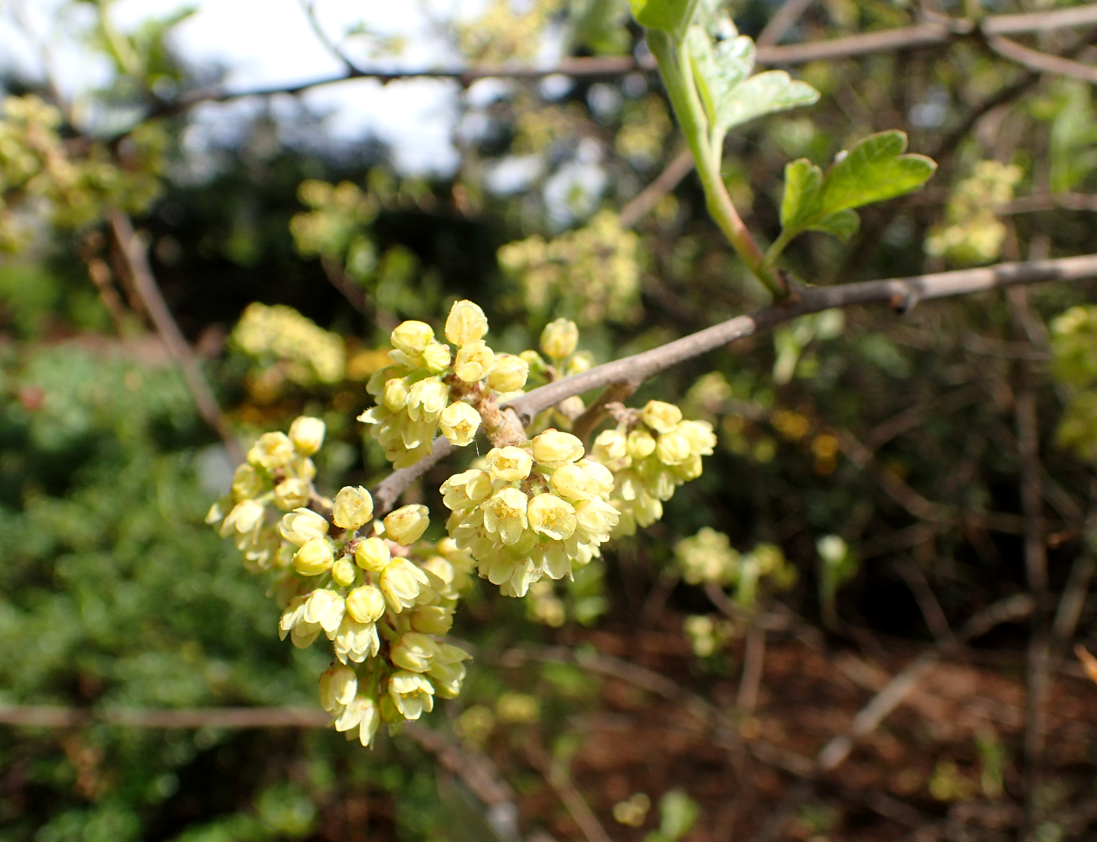 Rhus aromatica in botanical garden in Kraków